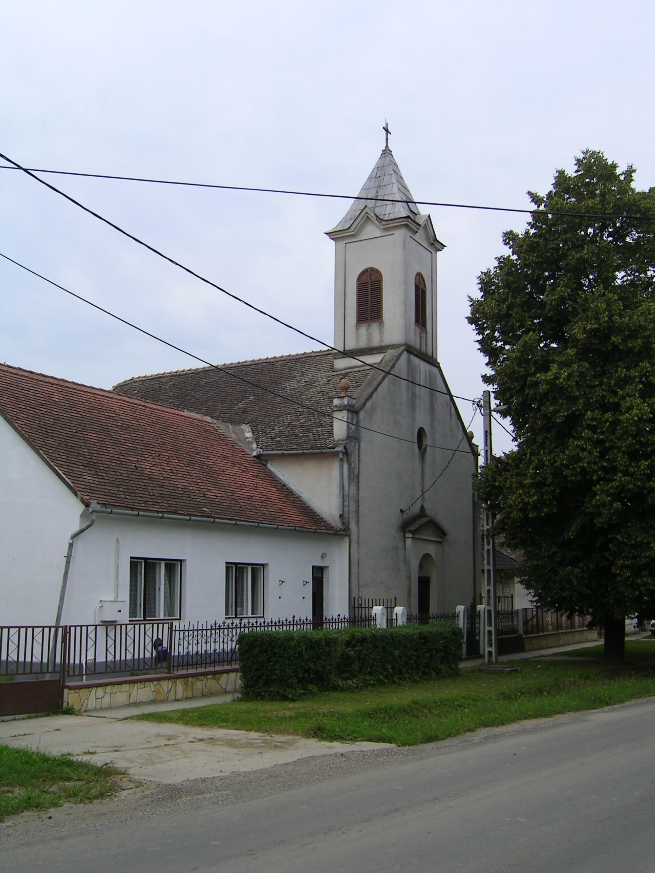 Lutheran church in Borjád in Kossuth Lajos street, Hungary